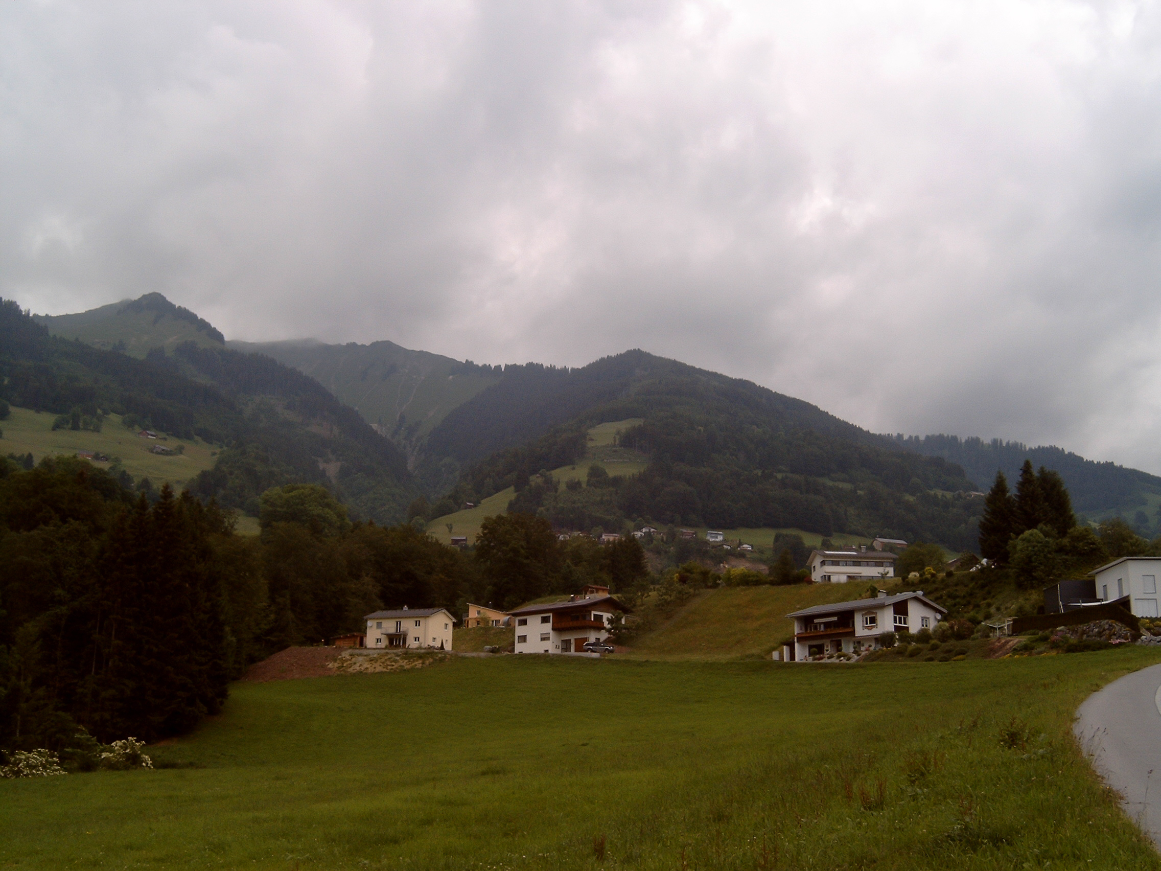 Thüringerberg, view in the street